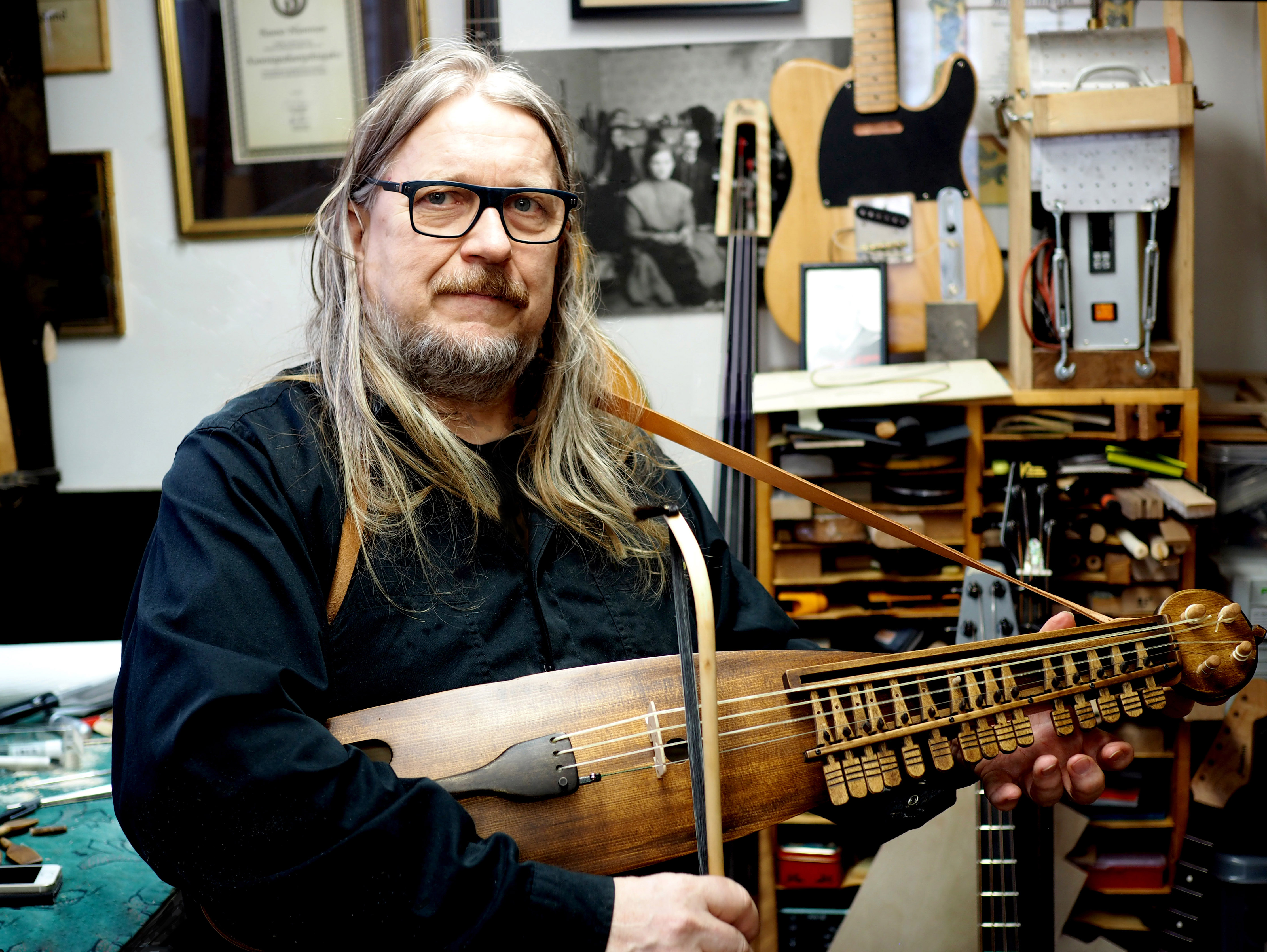 Rauno Nieminen plays Esseharpa copy in his workshop. This instrument is one of the three oldest nyckelharpas in Skandinavia. There are three surviving examples of the medieval nyckelharpa. One is found in the town of Mora in, Sweden, one in Vefsen, Norway; and one is in Esse, Finland. Master luthier Rauno Nieminen is making and playing medieval musical instruments in Ikaalinen, Finland.